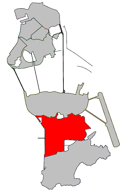 Parish in Macau